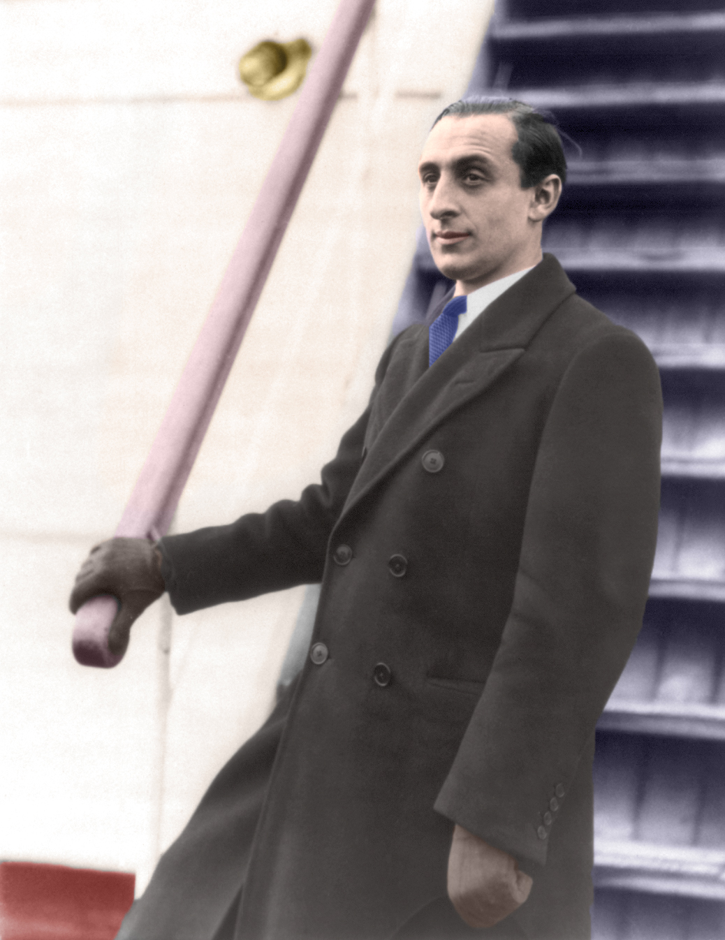 Vladimir Horowitz, half-length portrait, standing by steps, facing left